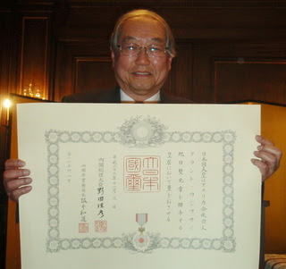 Grant Ujifusa holds the proclamation he received on Jan. 26 from the government of Japan.Grant Ujifusa holds the proclamation he received on Jan. 26 from the government of Japan.